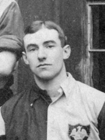 Queens' College Cambridge football team 1900–1901, winners of the Inter-College Cup. Notable among the players are: Charles Tate Regan (right, middle row): director of the Natural History Museum, London 1927–1938